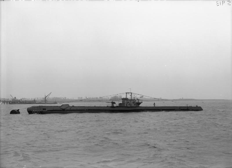 British S class submarine HMSM SHALIMAR secured to a buoy in the Medway.